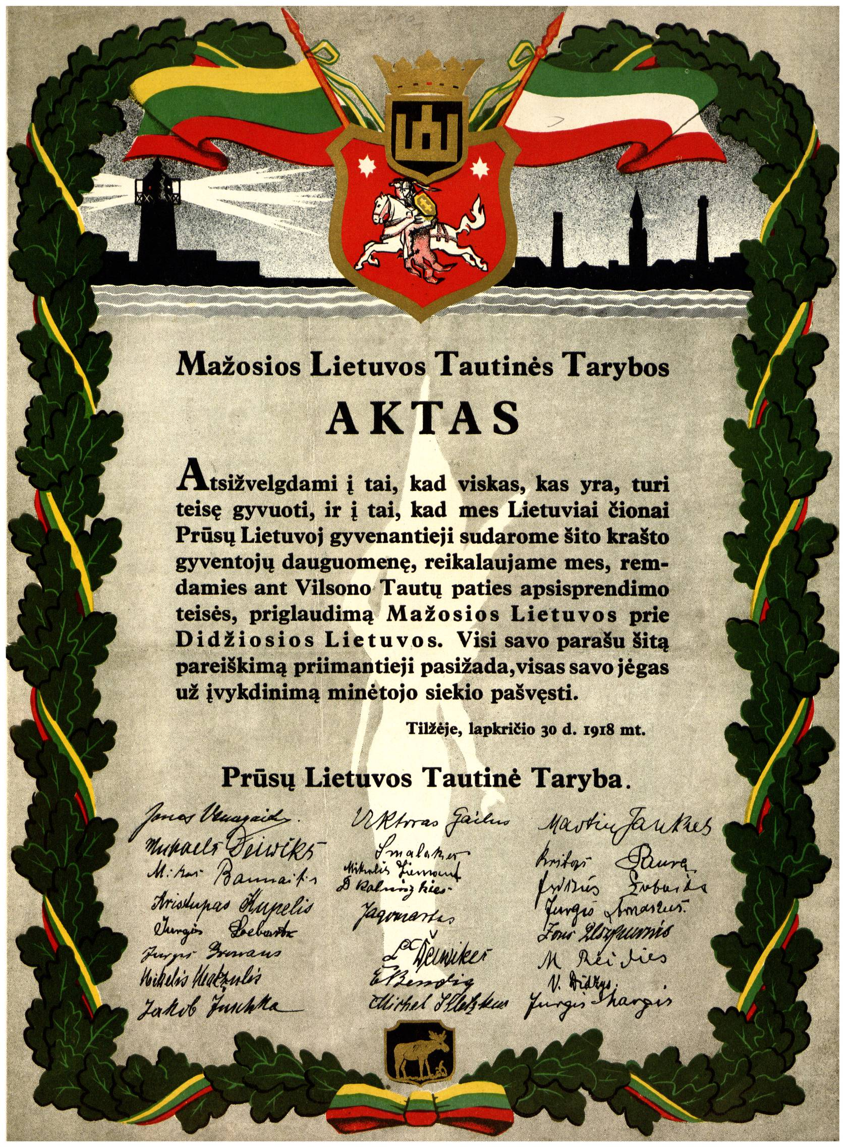 A copy of the Act of Tilsit